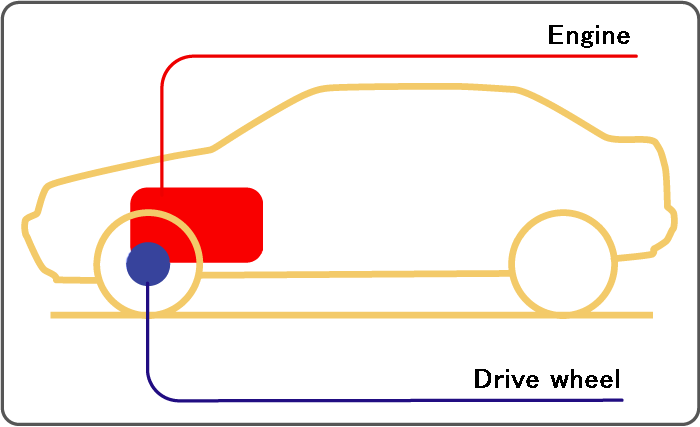 Sketch of MF(midfront-engine, front wheel drive) layout